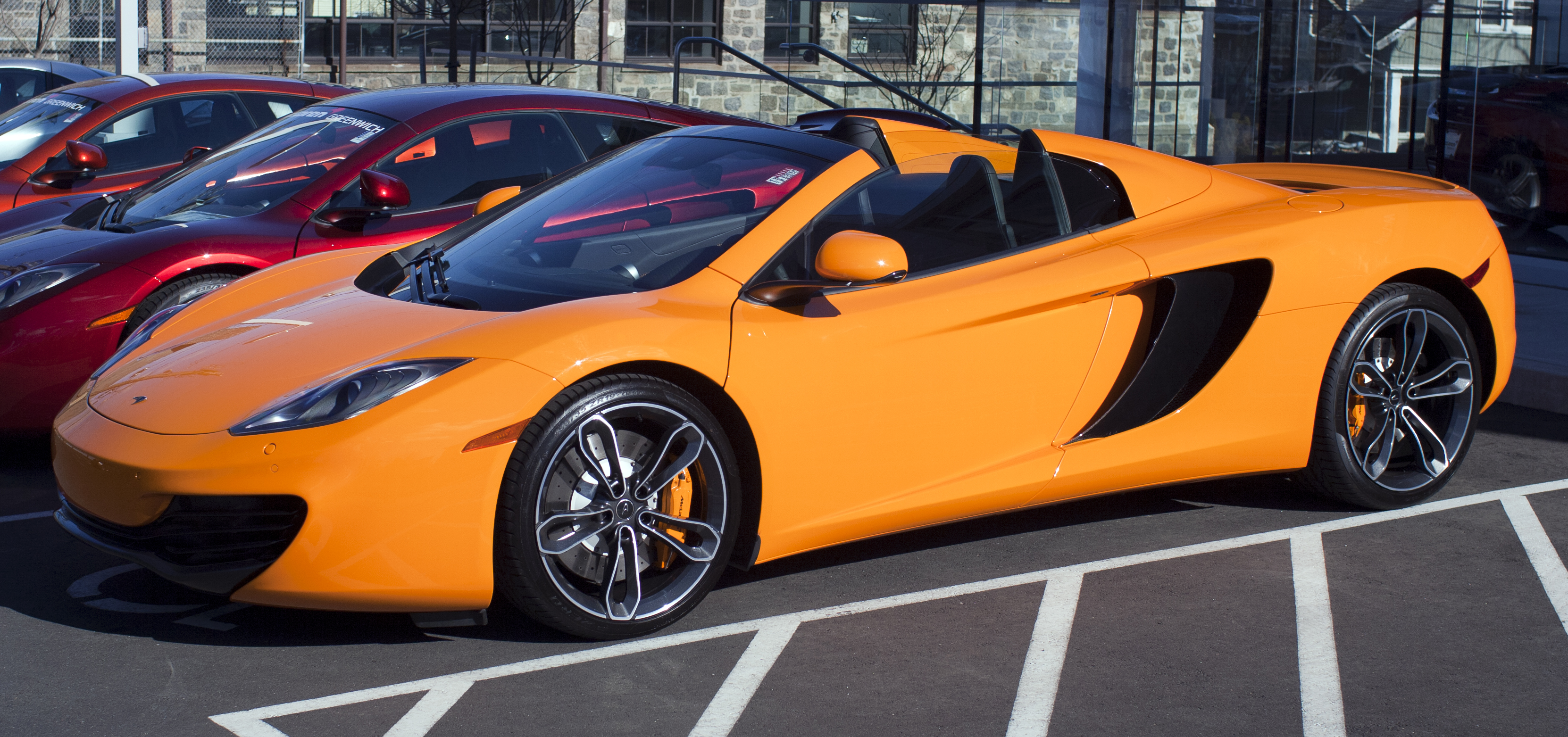 2013 McLaren MP4-12C Spider at a dealership in Greenwich, CT. Classic McLaren orange color.